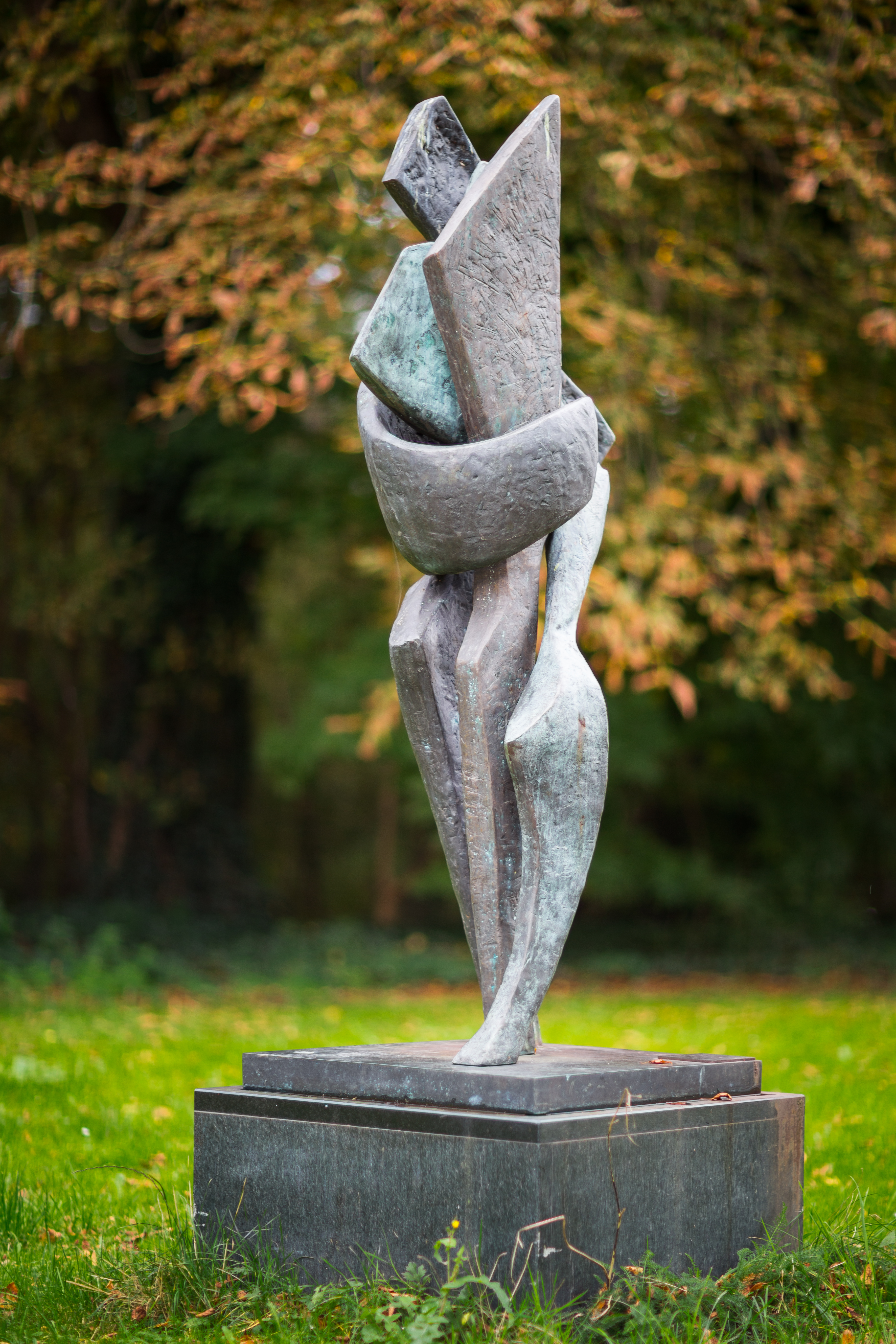 Sculpture "Transformations" by Emma de Sigaldi located at Hohenzollernstrasse (close to Boedekerstrasse) in Hanover, Germany.